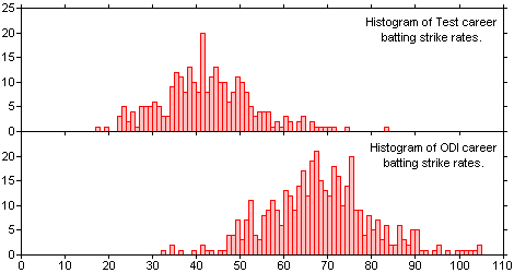 Histogram of international cricket batting strike rates